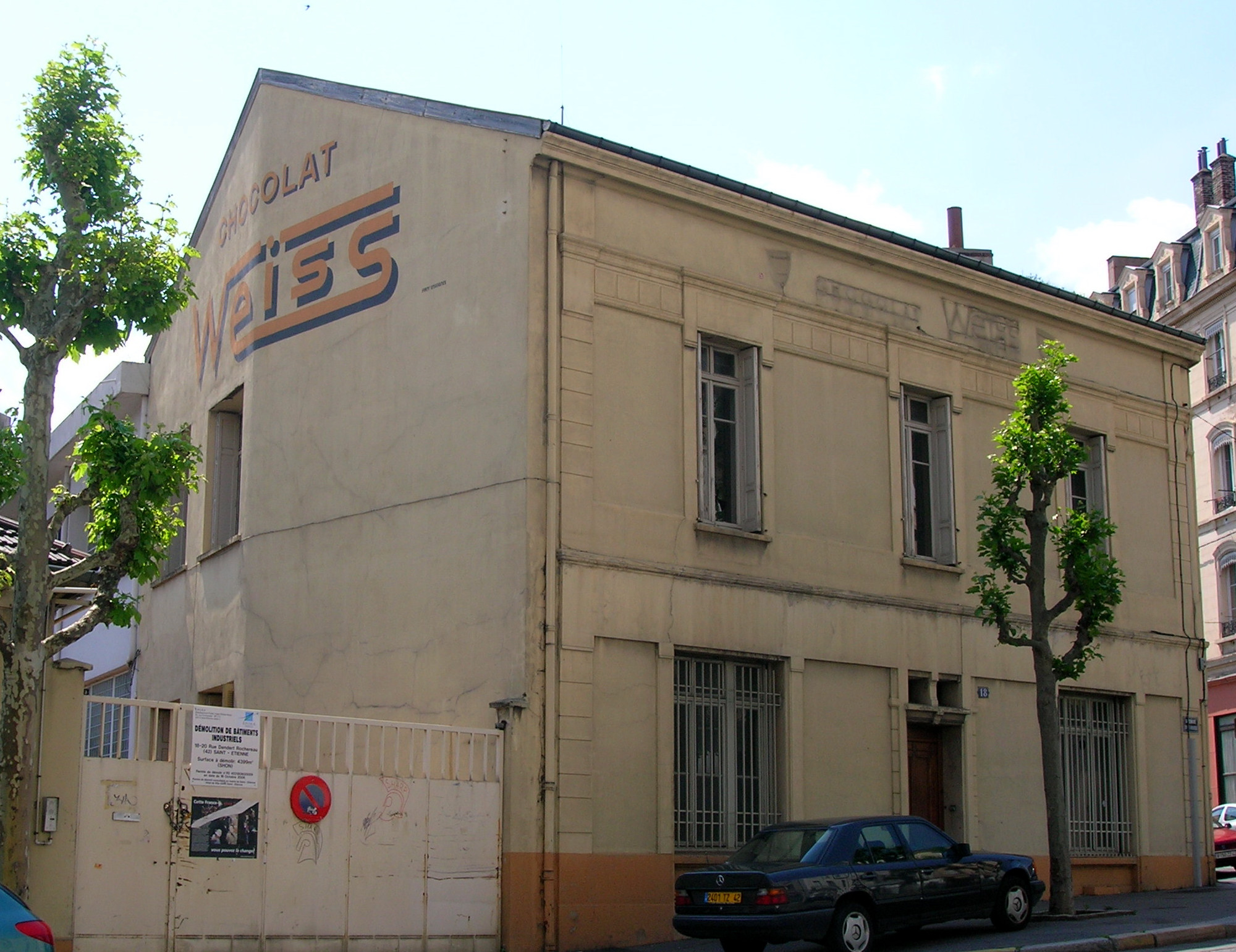 Former factory of Weiss, chocolate manufacturer in Saint-Etienne (France). This building has been destroyed in November 2007.